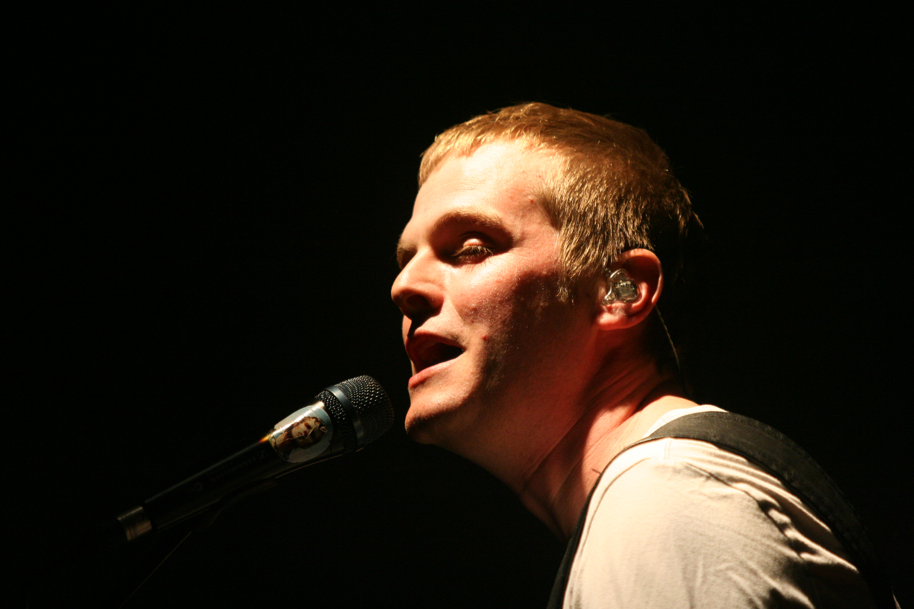 Peter S. Brugger on a concert in Schrobenhausen